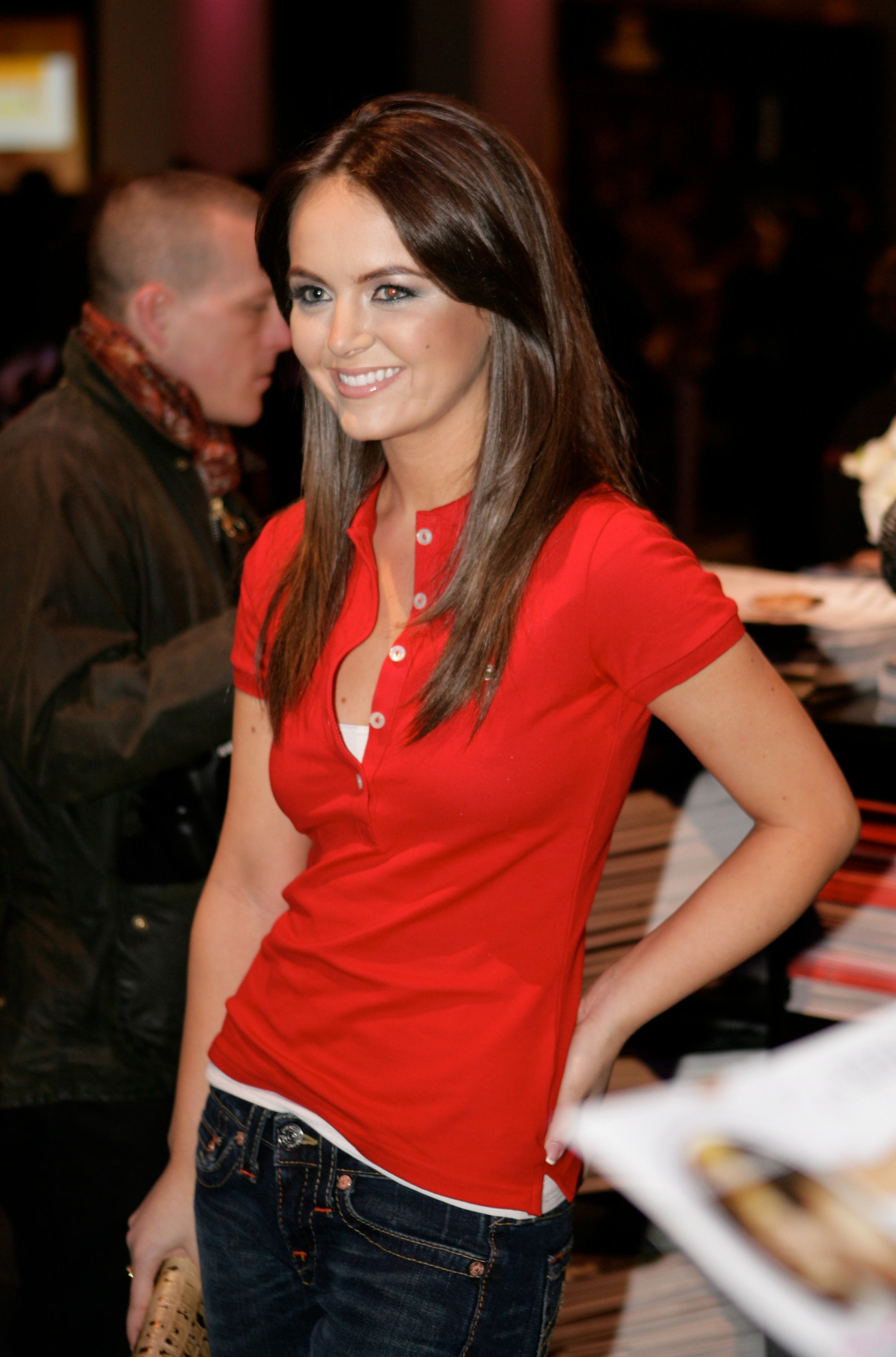 Nicole Lapin at Fashion Week in NYC